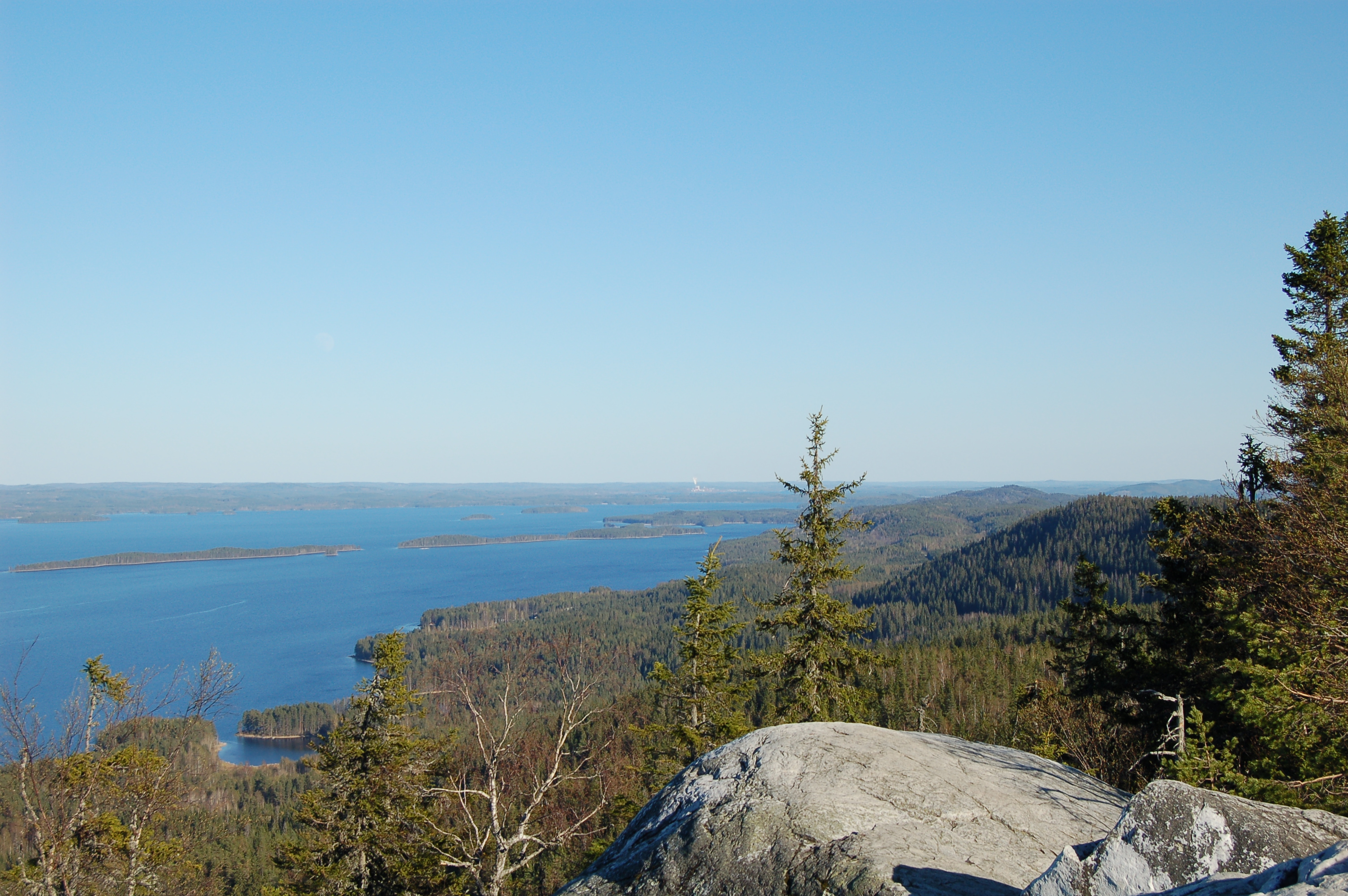 View towards Pielinen from Ukko-Koli in Koli National Park in Lieksa, Finland